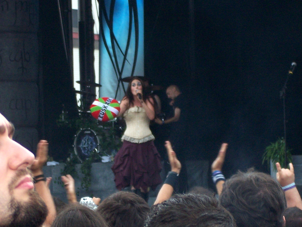 Sharon den Adel from Within Temptation at Metalway 2006.